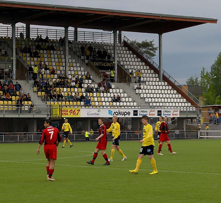 KuPS of Kuopio (yellow) vs. JIPPO of Joensuu, 1st div. football at Magnum Areena, Kuopio, Finland.